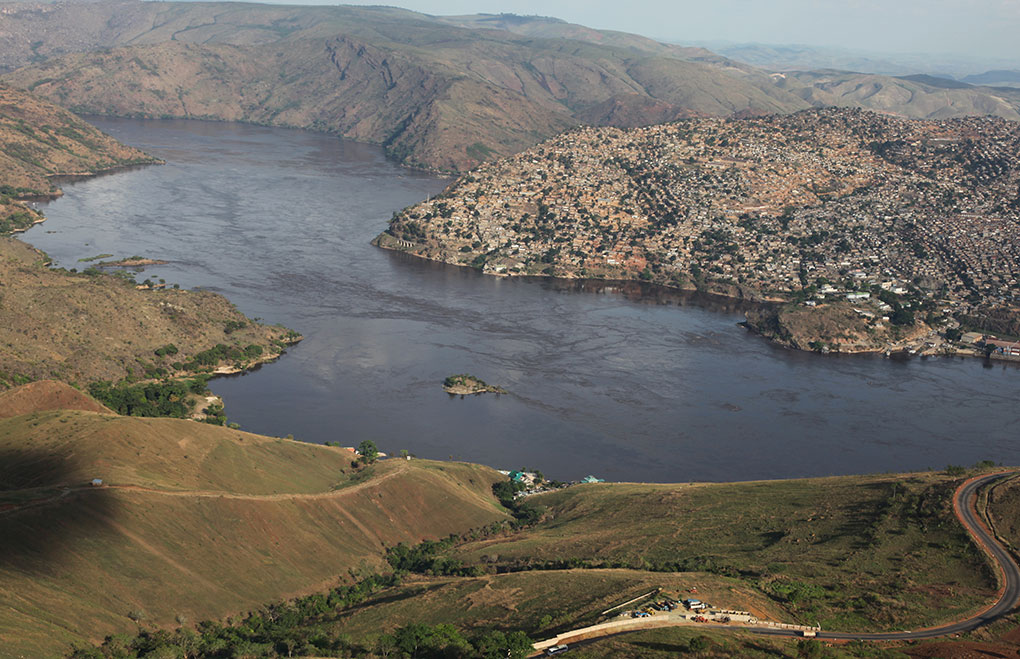 Aerial view of Matadi, the main port city in the DRC, located in the province of Bas-Congo, in the extreme west of the country.